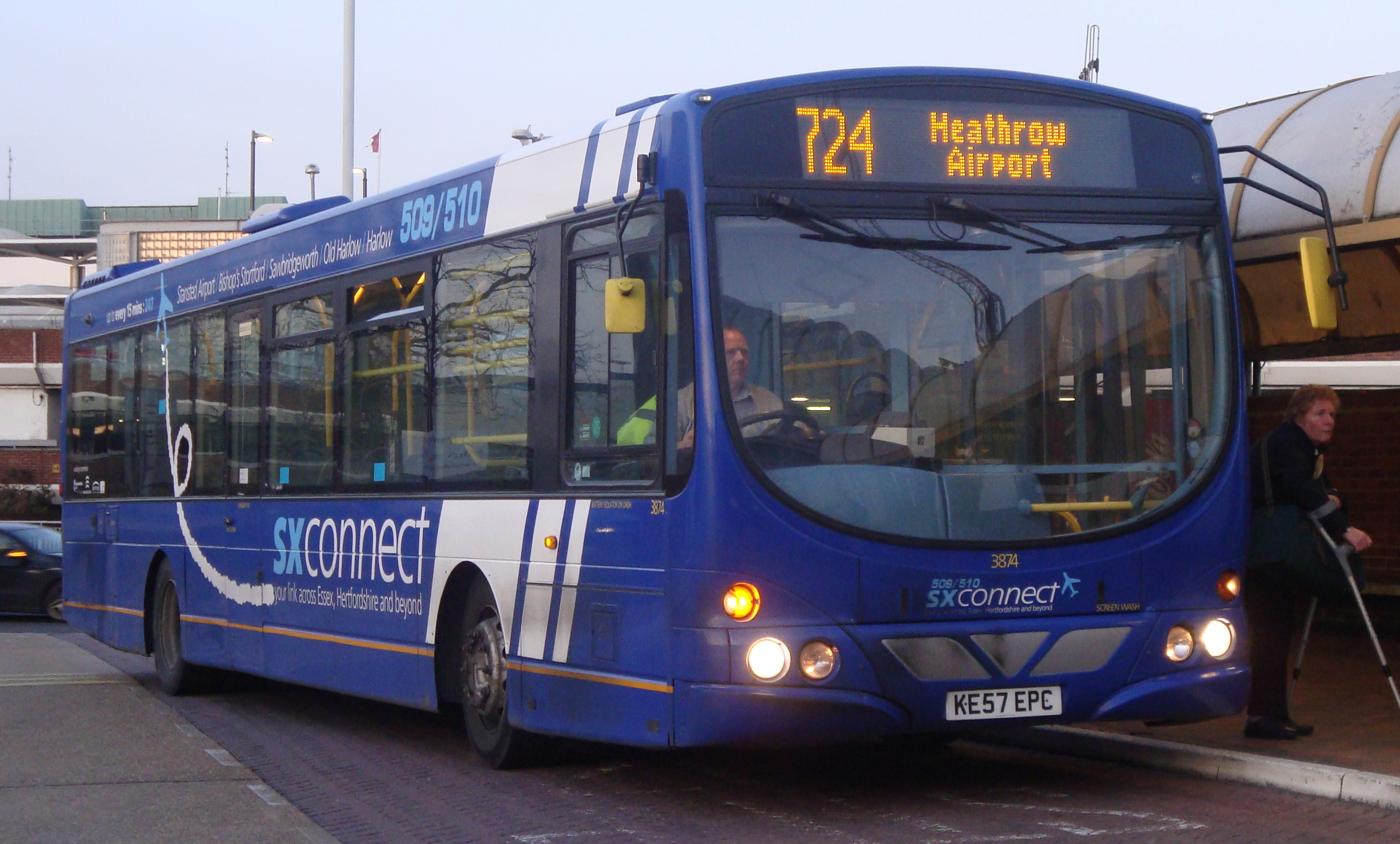 Network Harlow (Arriva-TGM) 3874 on Route 724, Heathrow Central Bus Station